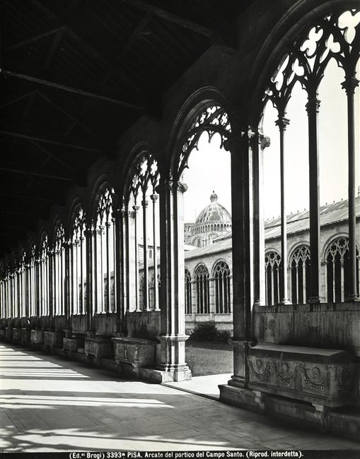 Giacomo Brogi (1822-1881), "Pisa - Arches of the arcades of the Campo Santo". Catalogue # 3393a.